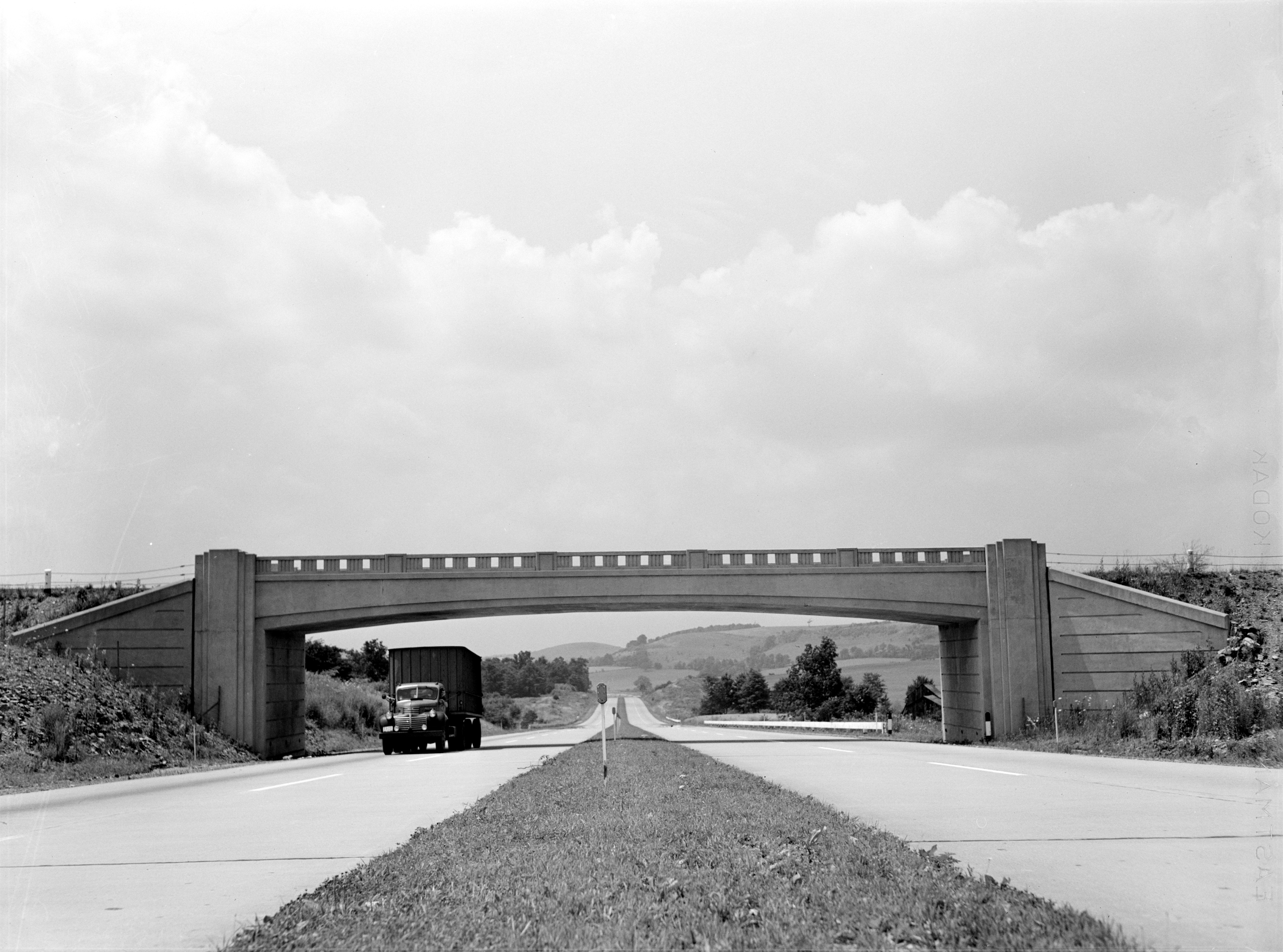 A view of the Pennsylvania Turnpike at an overpass. Taken by an employee of the Office of War Information.